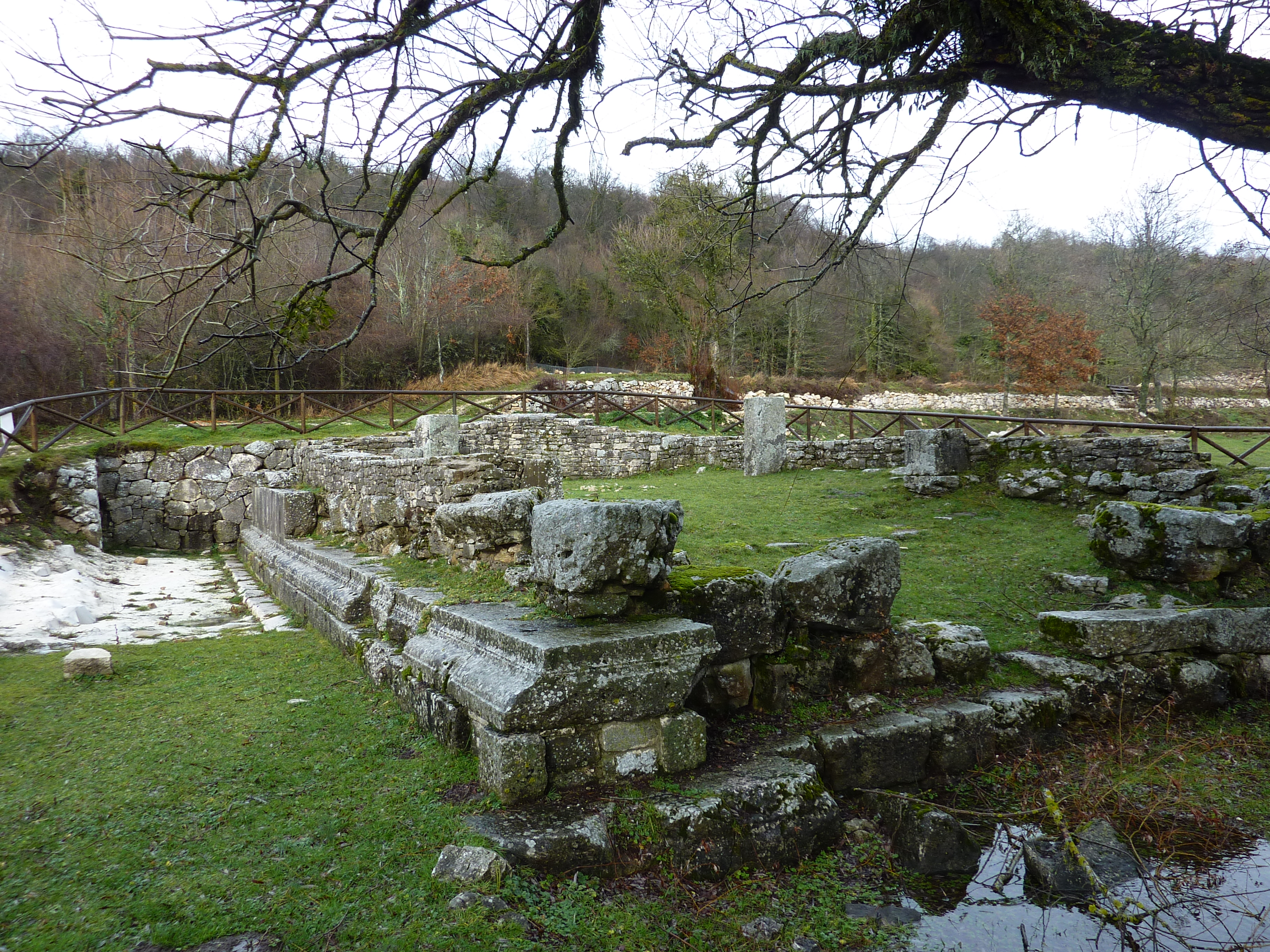 Vastogirardi: Italic temple